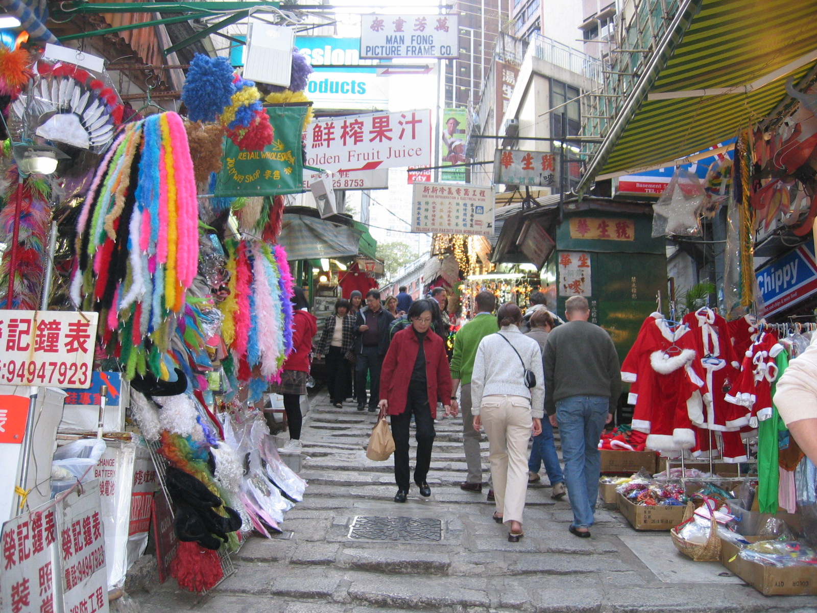 Pottinger Street, Hong Kong. Taken by Terence Ong on 17 December 2005.